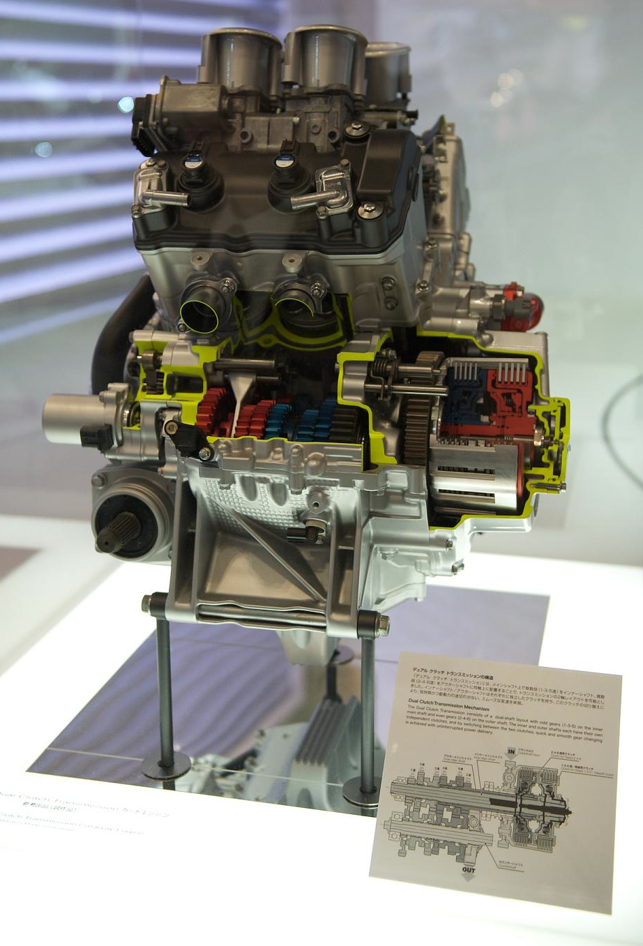 Honda VFR 1200F Dual Clutch Engine at the 2009 Tokyo Motor Show.